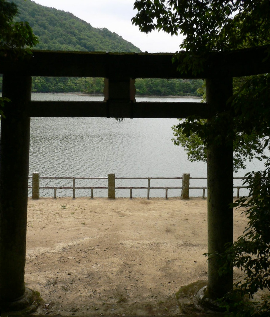 Hazu Hachiman Jinja (Shrine) at Hyōgo Prefecture in Japan.